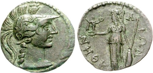 ATTICA, Athens. Æ Drachm (4.96 g, 5h). Draped bust of Athena right, wearing crested Corinthian helmet / AQHN-A-IWN, Athena Parthenos standing left. Kroll 284; Svoronos, Monnaies pl. 82, 25; SNG Copenhagen 384. Near EF, dark brown-green patina.